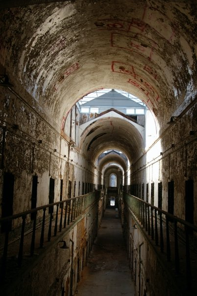 Eastern State Penitentiary view of two story hall